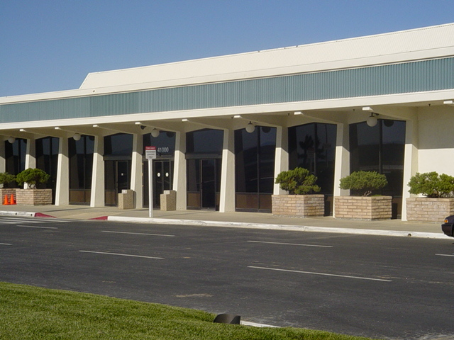 Palmdale Air Terminal Captioned As { }